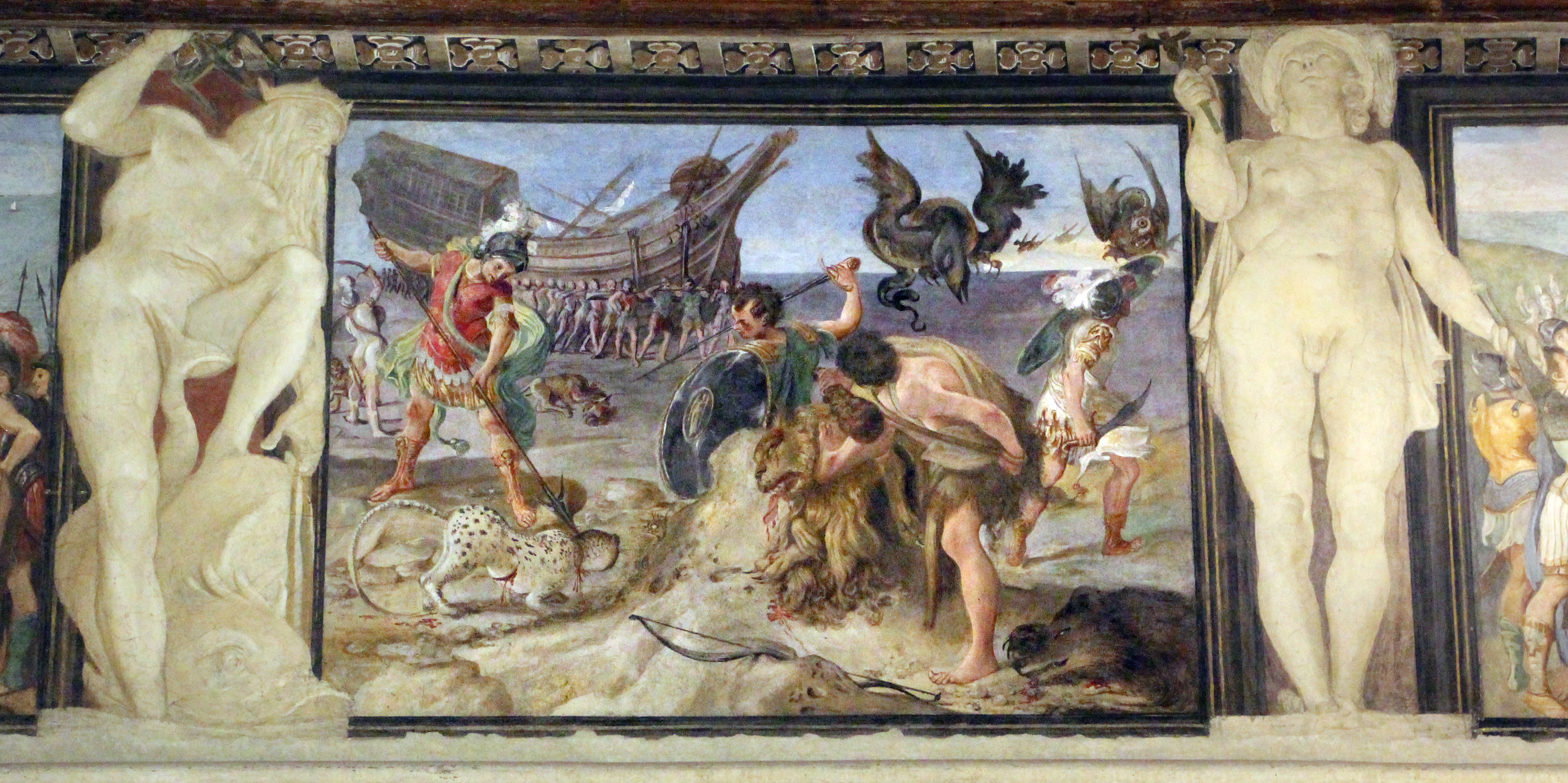 Frieze of Jason and Medea